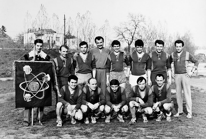 A faculty football team of PF UPJŠ